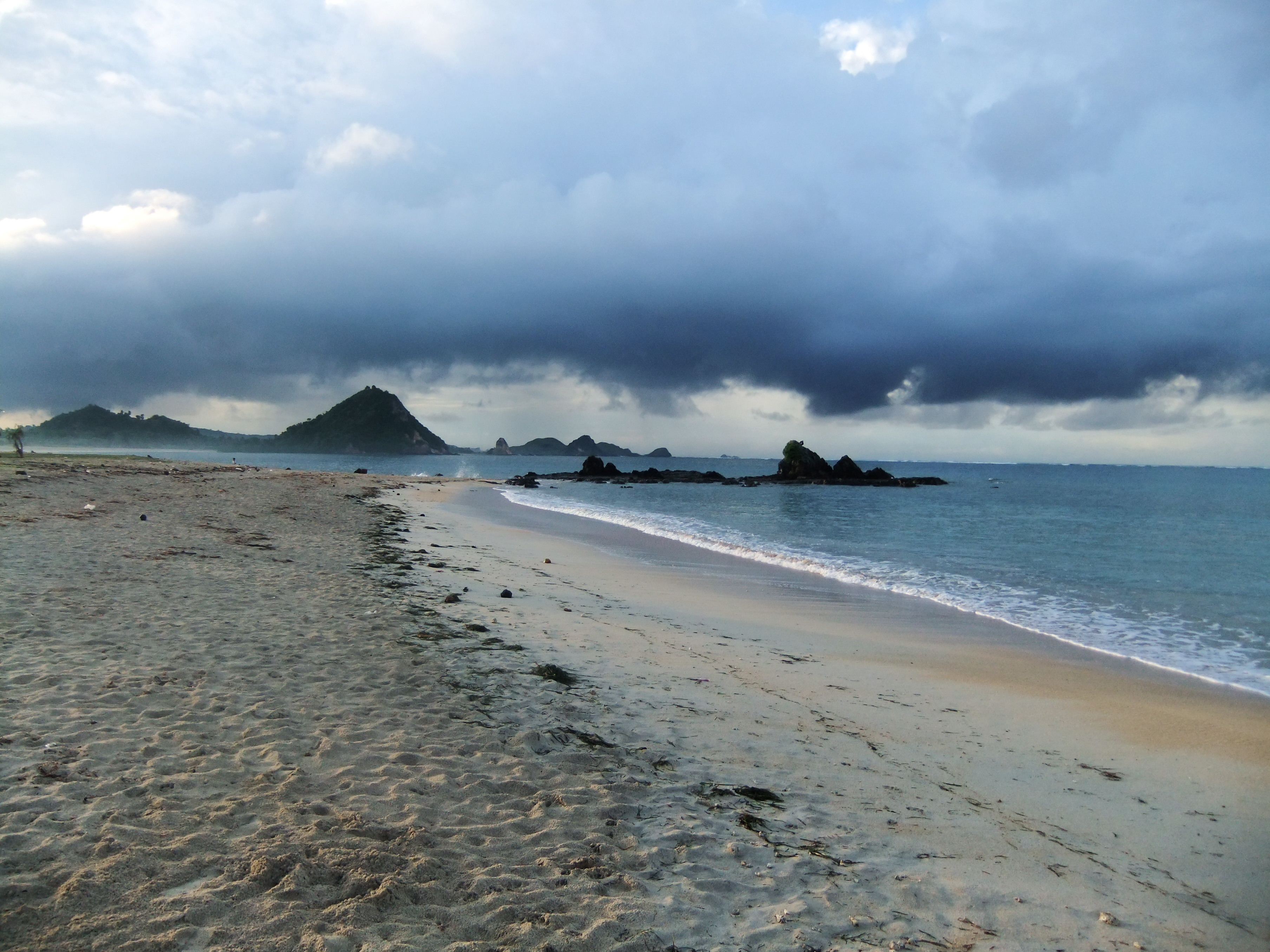 Kuta Beach, South Lombok, Indonesia